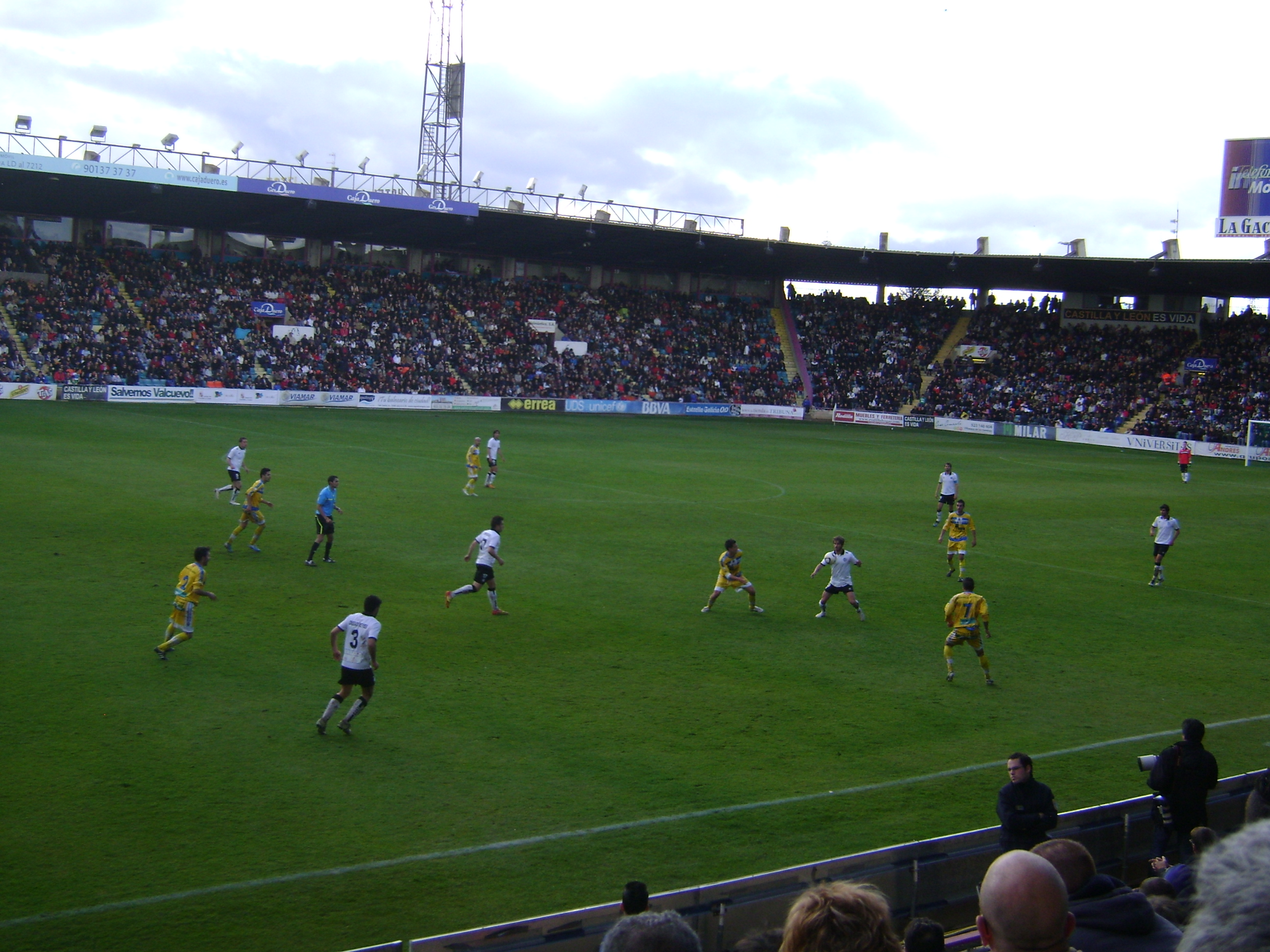 Partido de la U. D. Salamanca, disputado en el Helmántico.